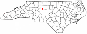 Category:North Carolina Dot Maps